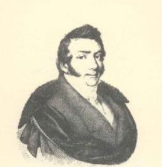 Nicolò Vaccaj, italian song teacher and composer